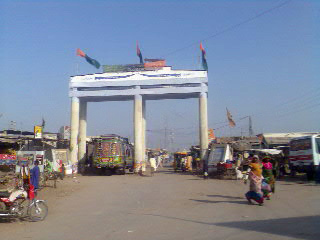 Main Bus stop, Talhar